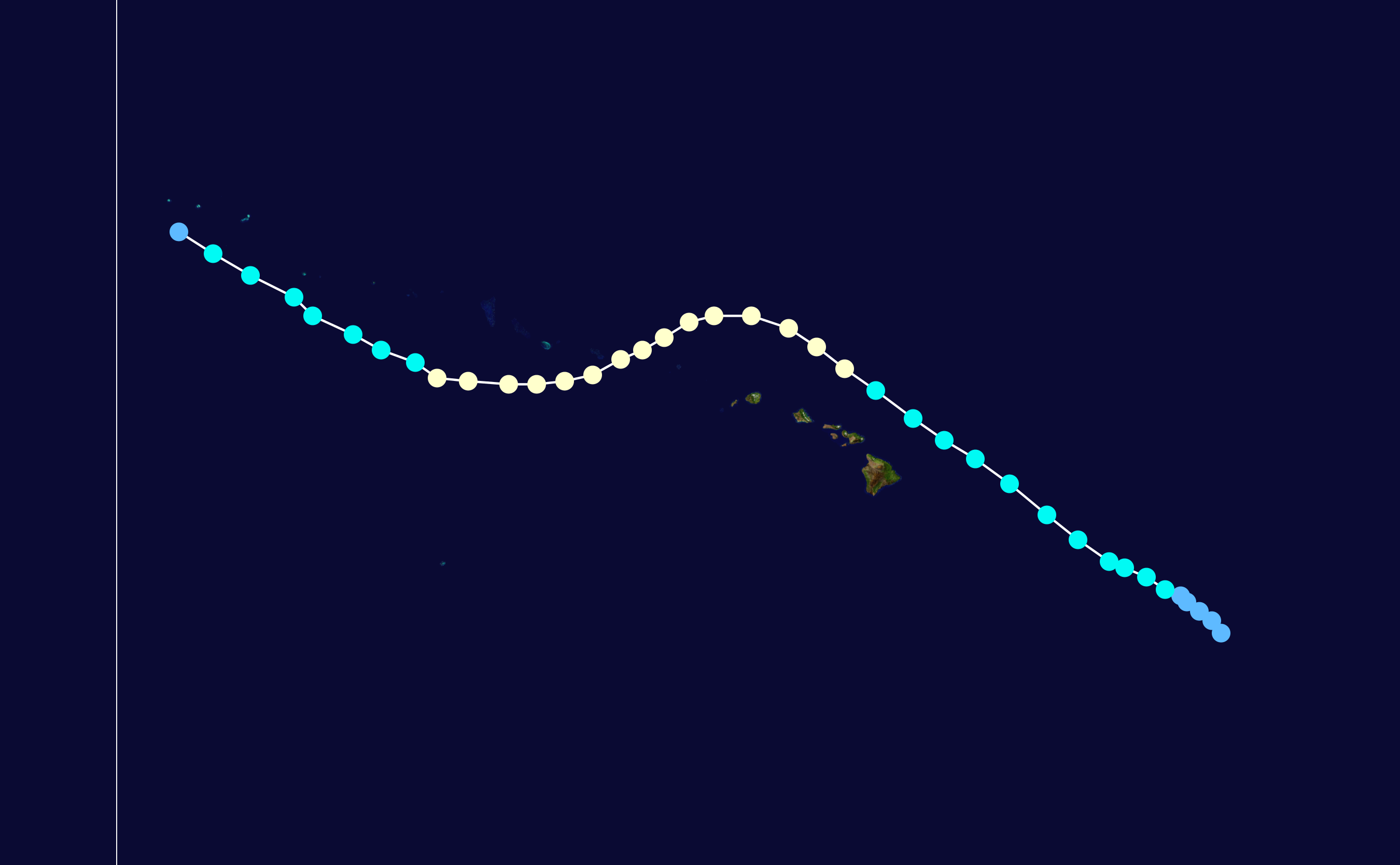 Track map of Hurricane Hiki of the 1950 Pacific hurricane season. The points show the location of the storm at 6-hour intervals. The colour represents the storm's maximum sustained wind speeds as classified in the Saffir–Simpson scale (see below), and the shape of the data points represent the nature of the storm, according to the legend below. Saffir–Simpson scale Tropical depression≤38 mph≤62 km/h Category 3111–129 mph178–208 km/h Tropical storm39–73 mph63–118 km/h Category 4130–156 mph209–251 km/h Category 174–95 mph119–153 km/h Category 5≥157 mph≥252 km/h Category 296–110 mph154–177 km/h Unknown Storm type Tropical cyclone Subtropical cyclone Extratropical cyclone / Remnant low / Tropical disturbance